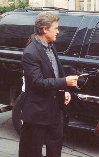 Kurt Russell arriving to promote Dreamer at the 2005 Toronto Film Festival